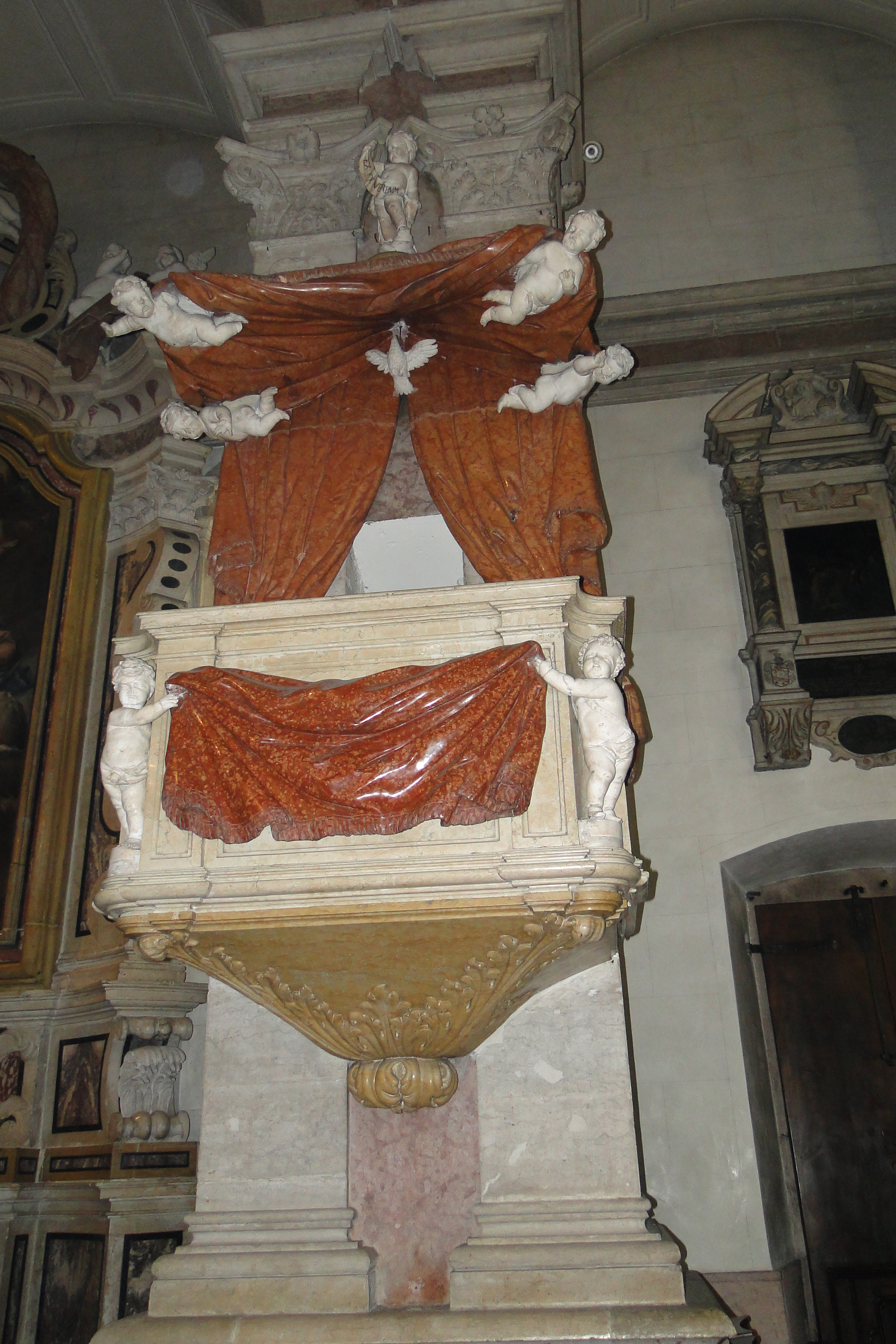 Church of Santa Maria Maggiore (Trento, Italy) - Pulpit